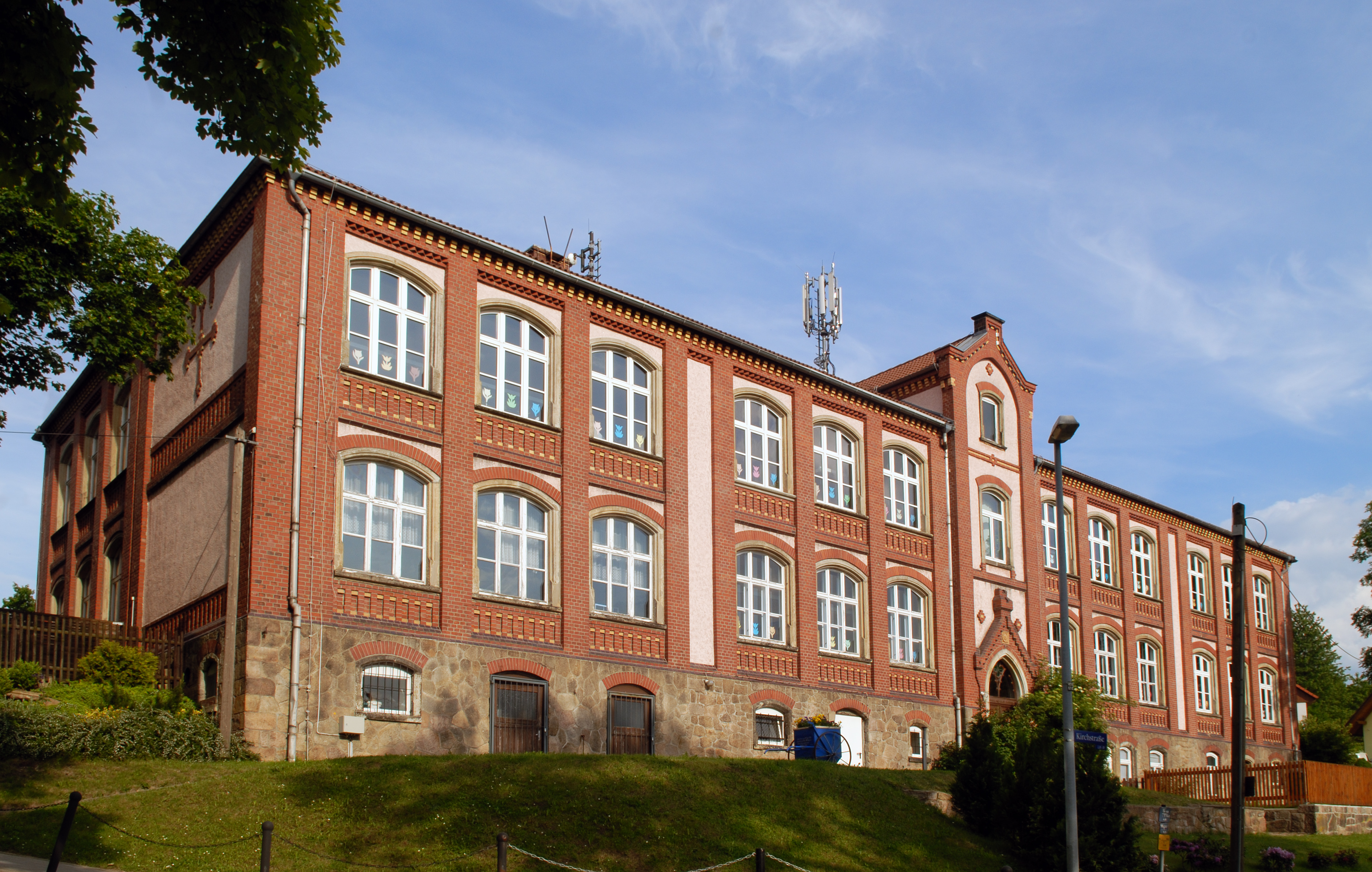 This image shows the old primary school in the district Cainsdorf in Zwickau, Germany.